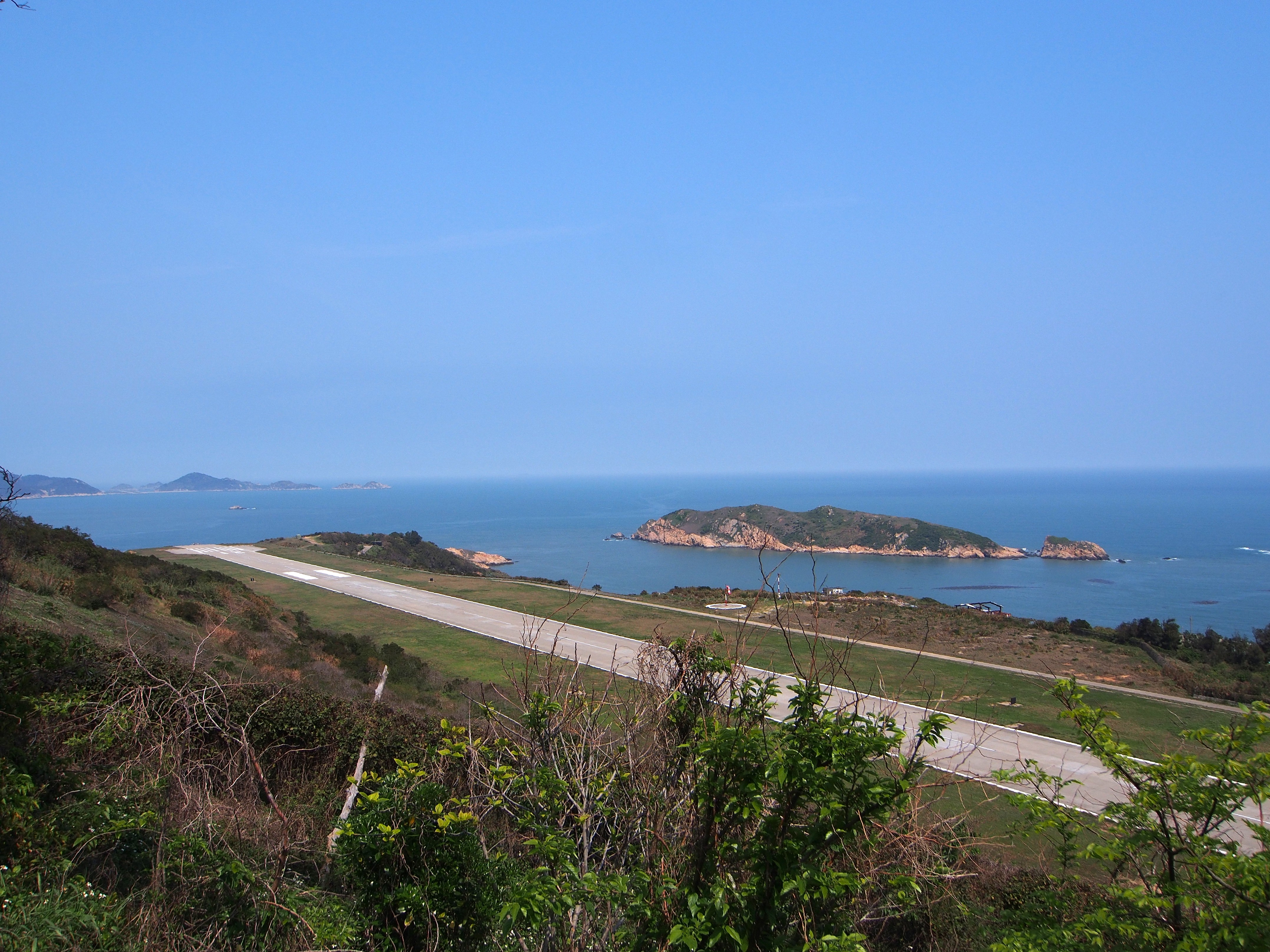 Nangan Airport Runway and Huangguan Islet - 2014.04